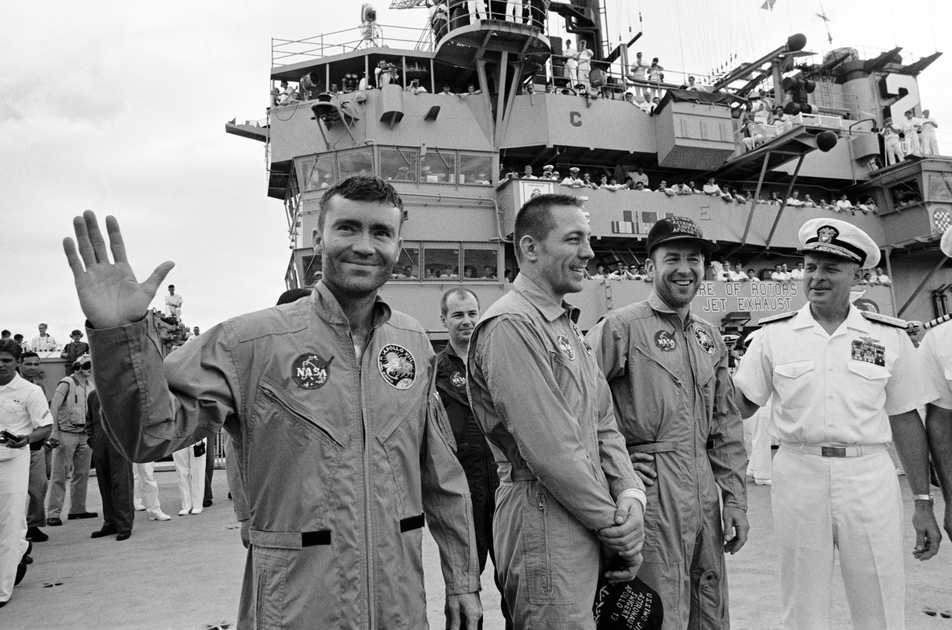 Rear Admiral Donald C. Davis welcomes the Apollo 13 crewmembers aboard the recovery ship USS Iwo Jima. The crewmembers are (from the left) astronauts Fred W. Haise Jr. (waving), John L. Swigert Jr. and James A. Lovell Jr.